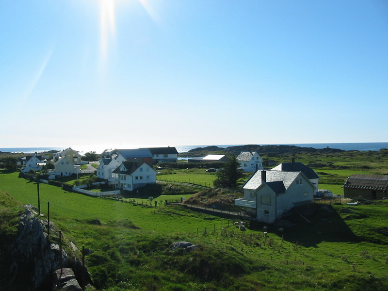 Kvitsøy